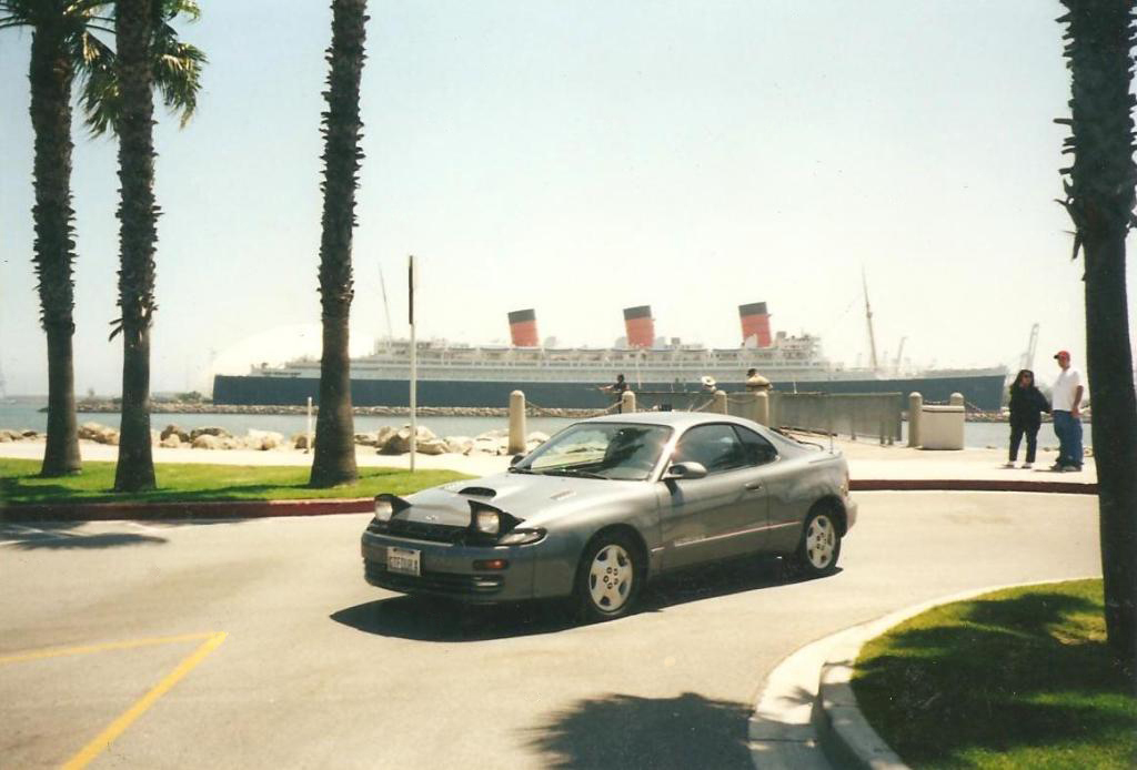 My 1993 Toyota Celica GT-Four All-Trac Turbo (ST185L-BLMVZA) shown in Graphite Gray Metallic (colour code 182), photographed in Long Beach, California.